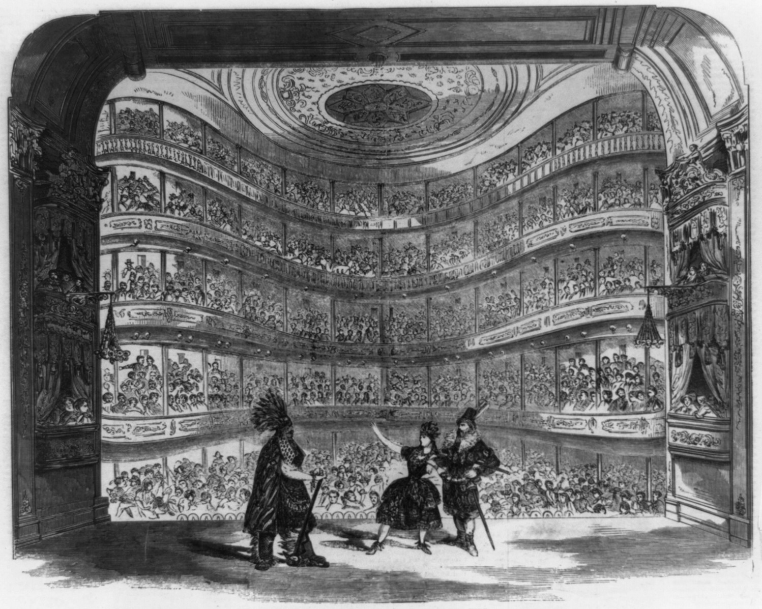 Interior view of the Bowery Theatre, New York (as rebuilt in 1845 by John M. Trimble), published in the 1856-09-13 edition of Frank Leslie's Illustrated Newspaper. Slightly cropped from the Library of Congress digital version using the GIMP.